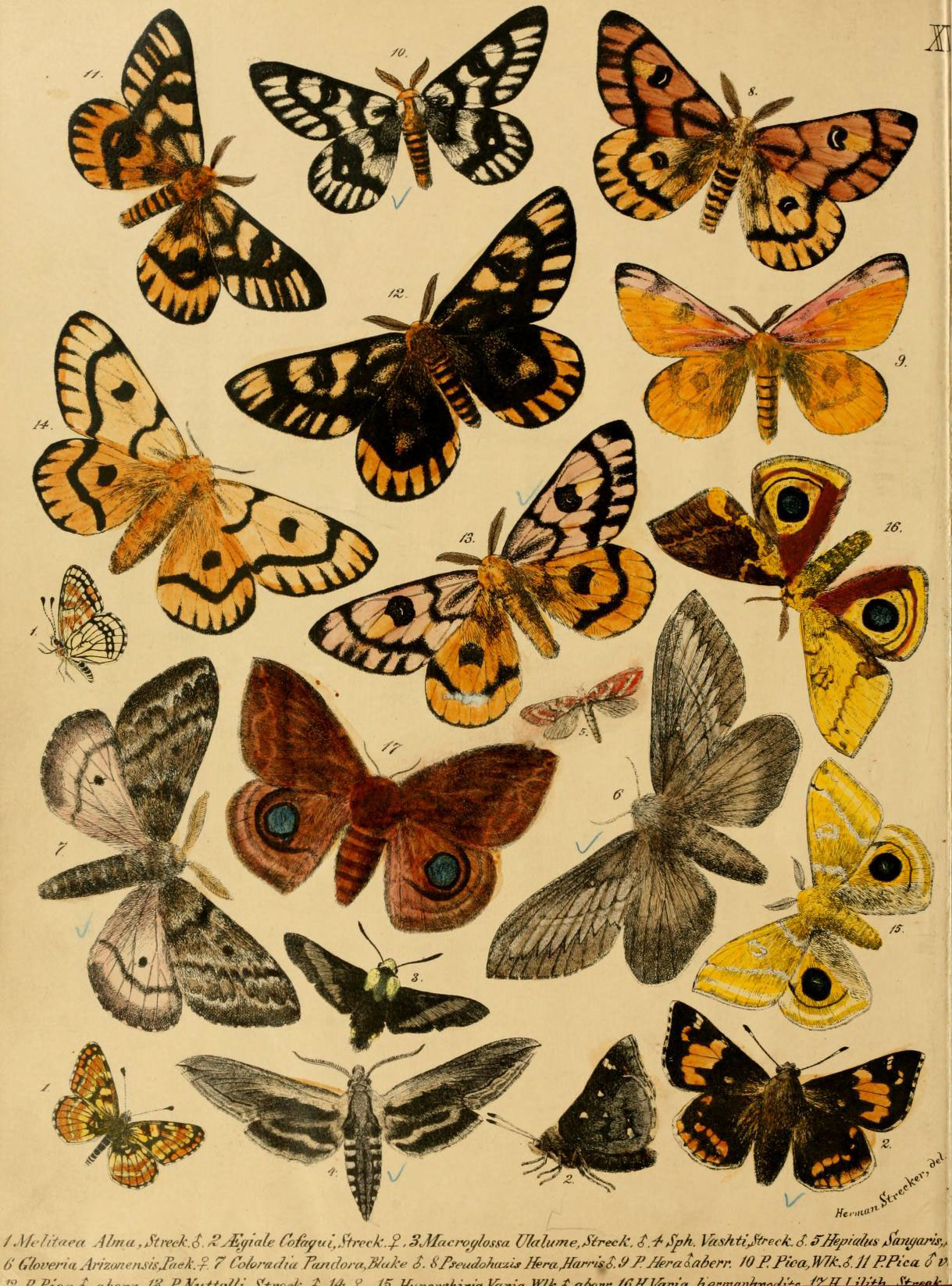 We...i«" / Mefitdeet Alma , Streck.$ . ^ JE(fiale Ch&yui,Sfreck.^ .SJfacmylossa U/alume,^^reck. i.^Sfh. Vashii/irec/cif. S'//ef!alns^^atu/cu'is,^ .)' G/overiaArizonenslsfnek.? T Co/orfi(?i'u Tafidorcf.JVu^*' S. SFfeudohtc^it HeraJfarr^S..9 P //eralnhei-r. W P.Fwa,W7kJ J/ BPica ^ V.